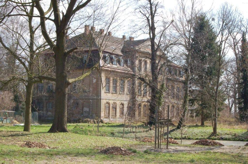 castle Königsborn near Magdeburg